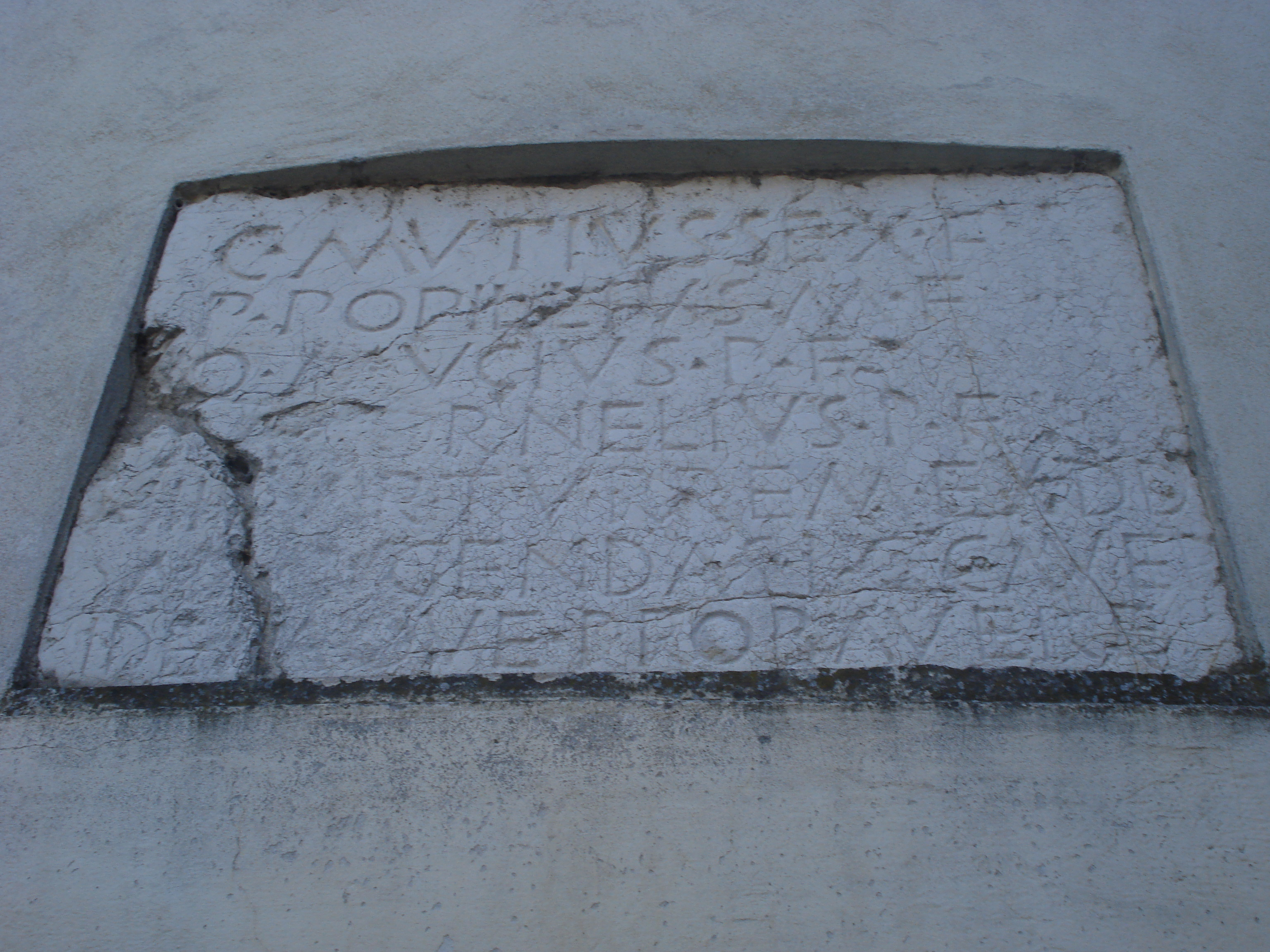 An ancient roman gravestone on the apse of gottolengo church